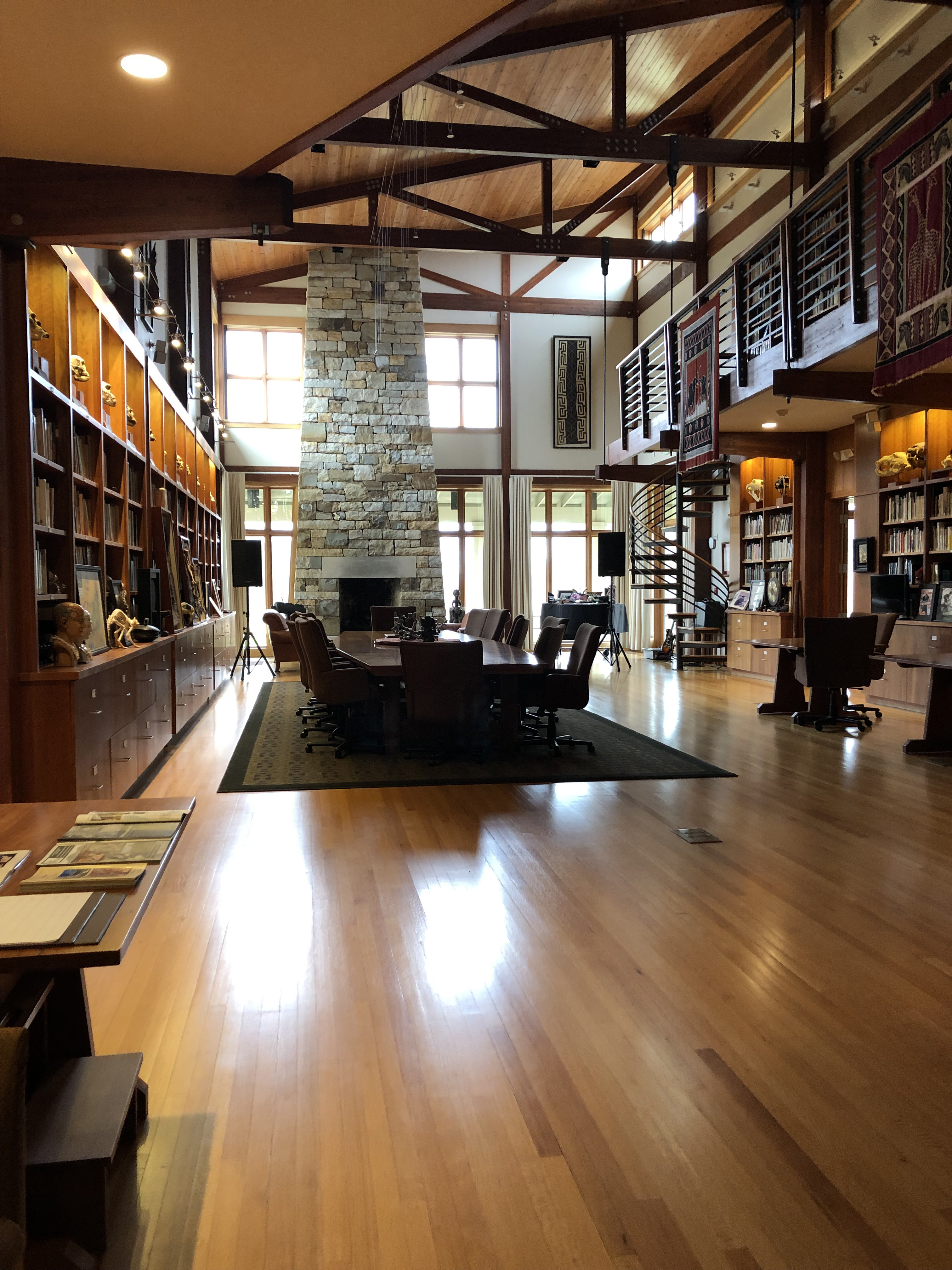 Interior view of the Stone Age Institute